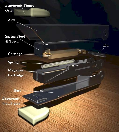 A 3D rendered exploded view of a standard office stapler.